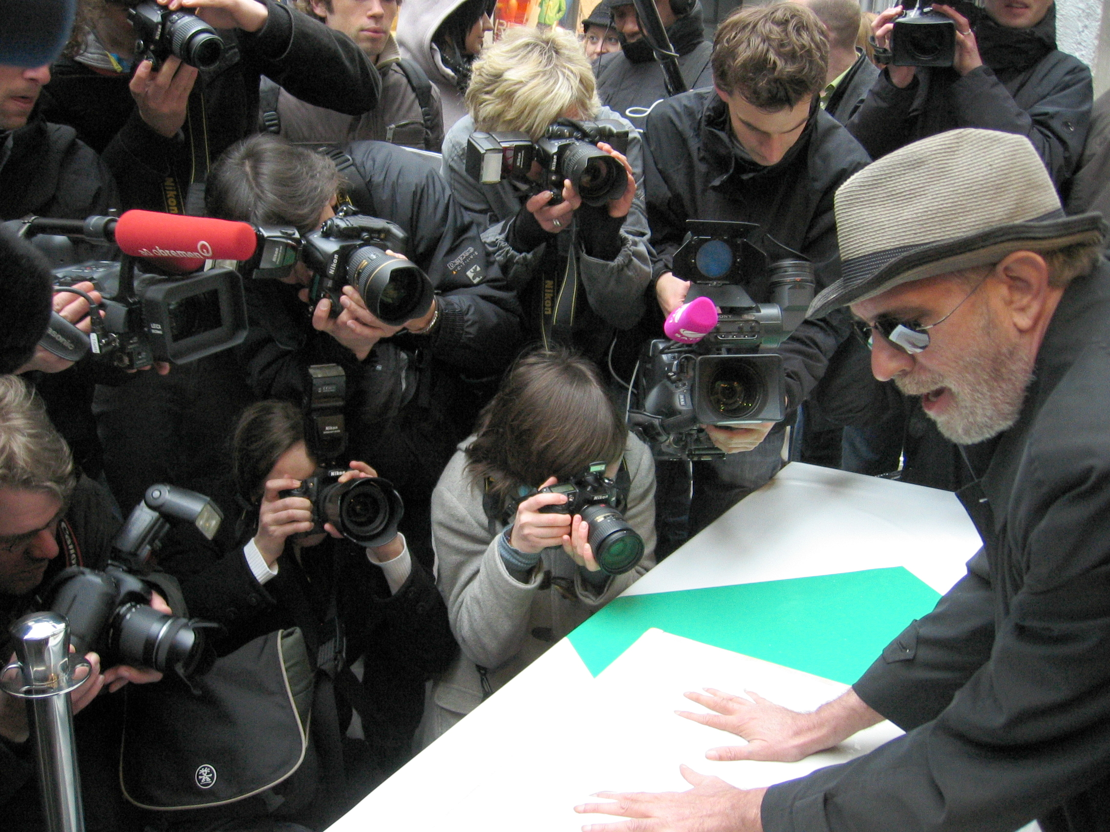 James Rizzi in Bremen in the Lloyd-Passage. The Reason was the opening of an exhibition of his works.